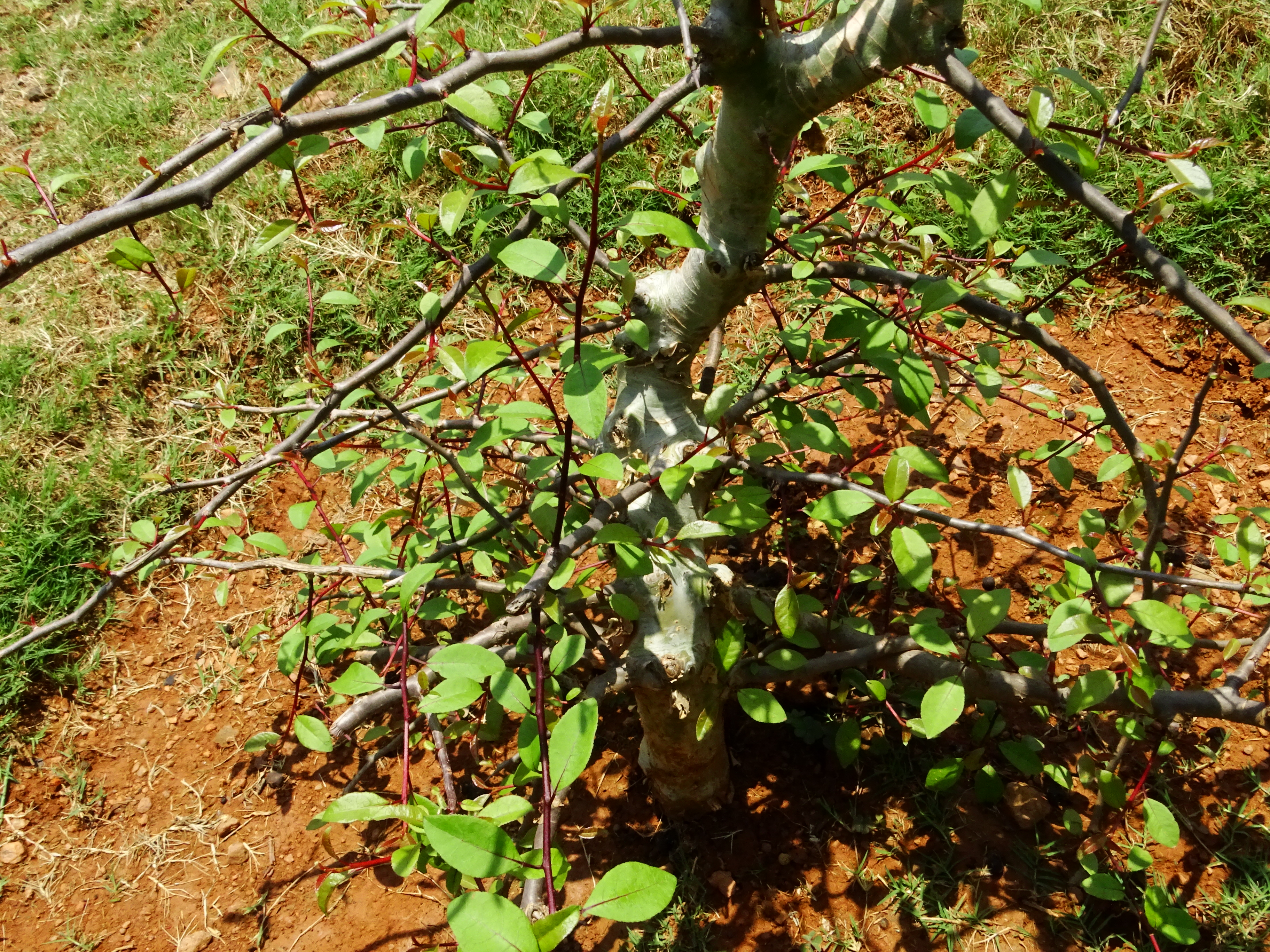 Commiphora madagascariensis seen in Amruth Herbal Gardens (Transdisciplinary University) Bangalore